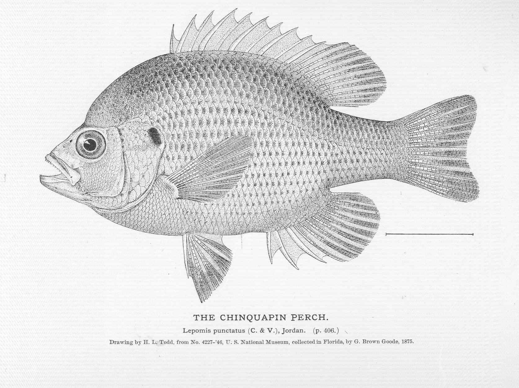 Chinquapin Perch Lepomis punctatus (C. & V.), Jordan Subject: Lepomis Tag: Fish